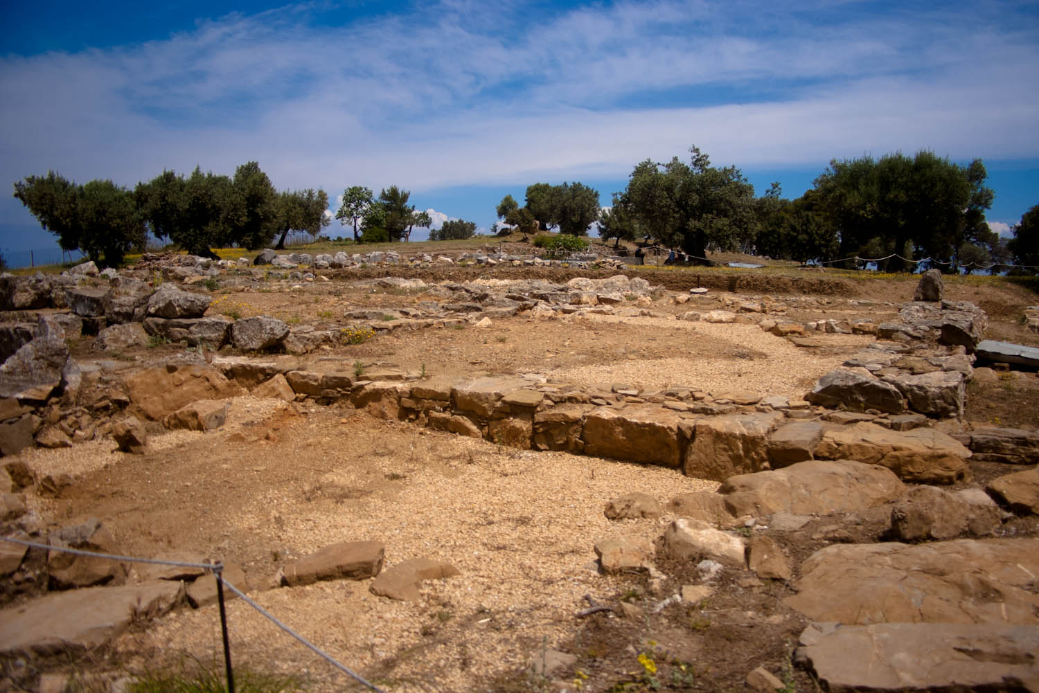 The sanctuary of Poseidon at Kalaureia, Poros. The propylaea closest to camera.